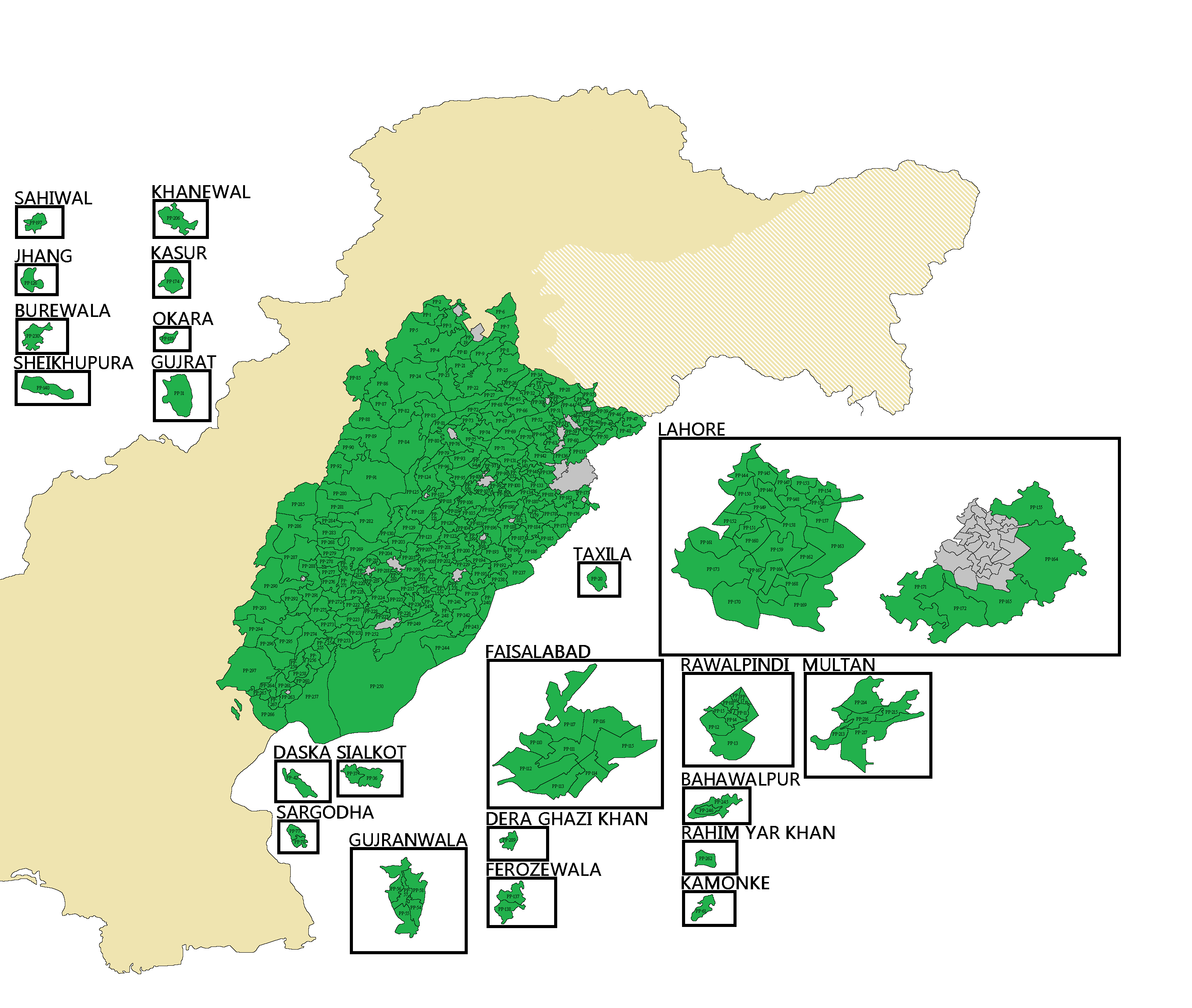 Map of The Punjab Showing Assembly Constituency after 2018 Delimitation